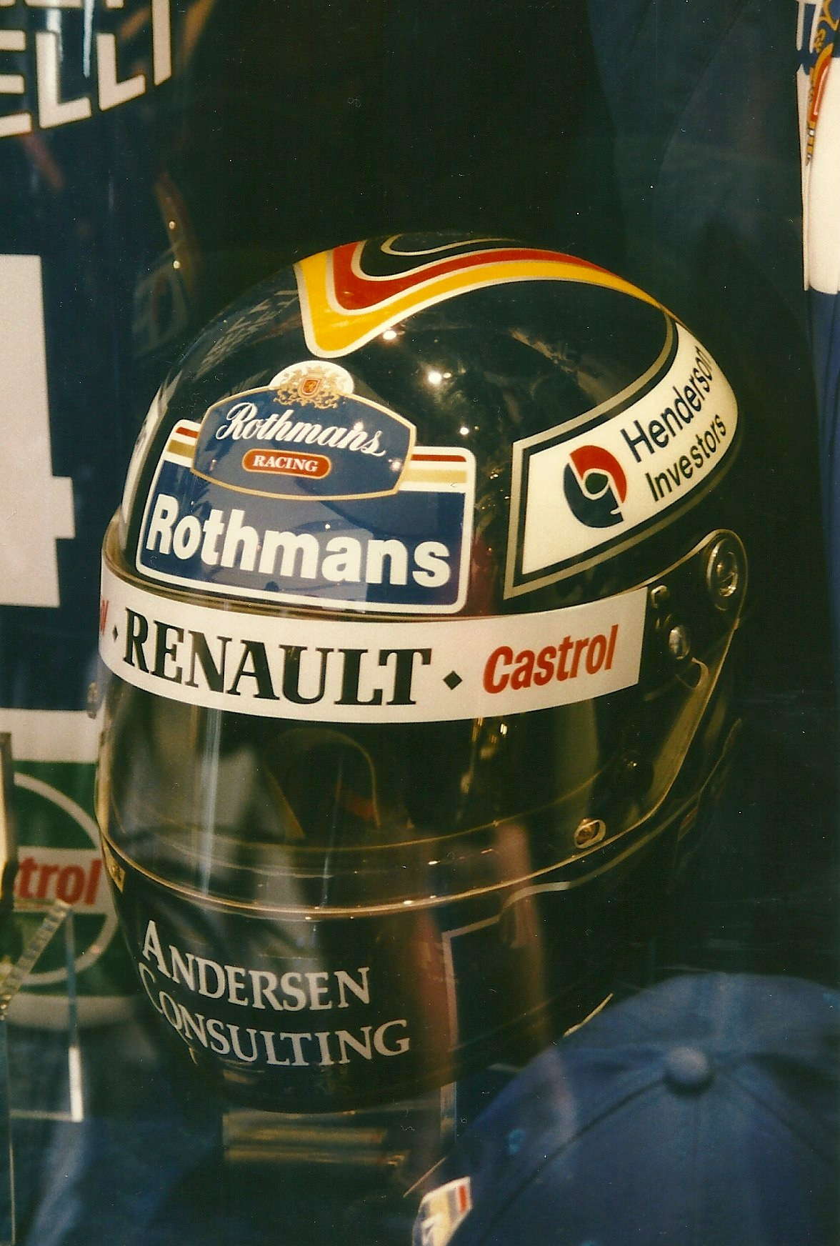 The helmet of German Formula One driver Heinz-Harald Frentzen on display at the 1997 British Grand Prix